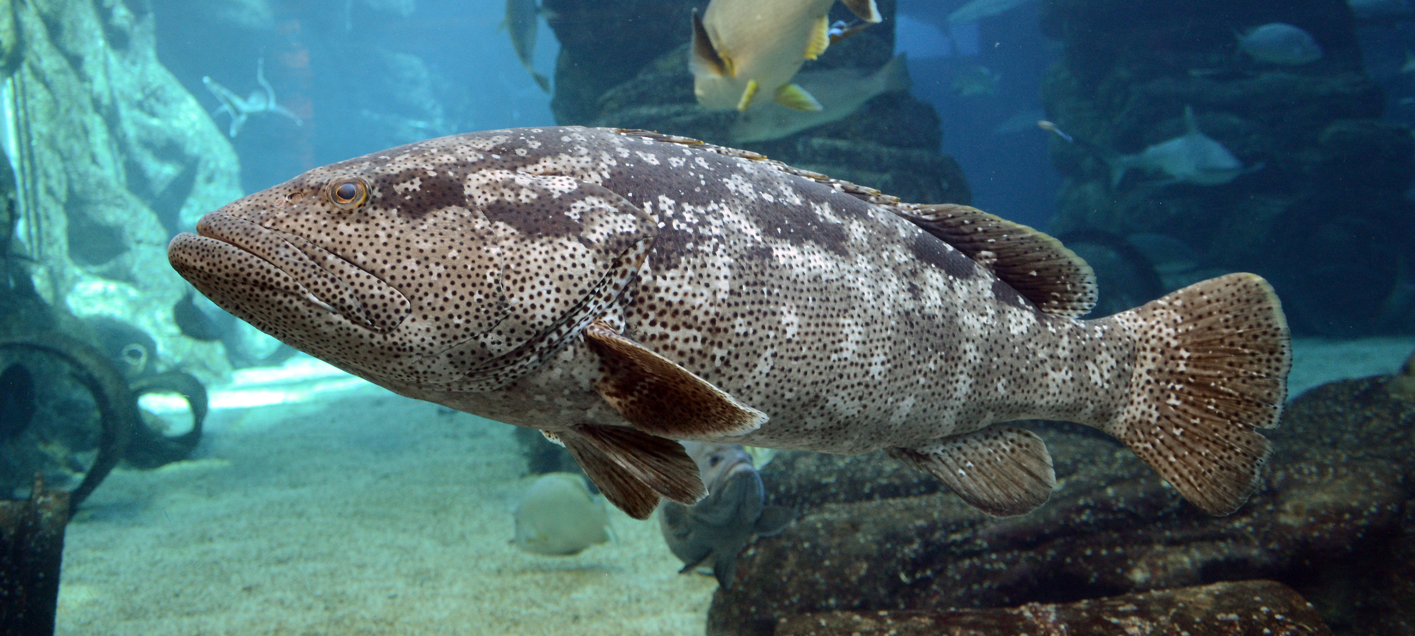 A Malabar rockcod (Epinephelus malabaricus) in UShaka Sea World